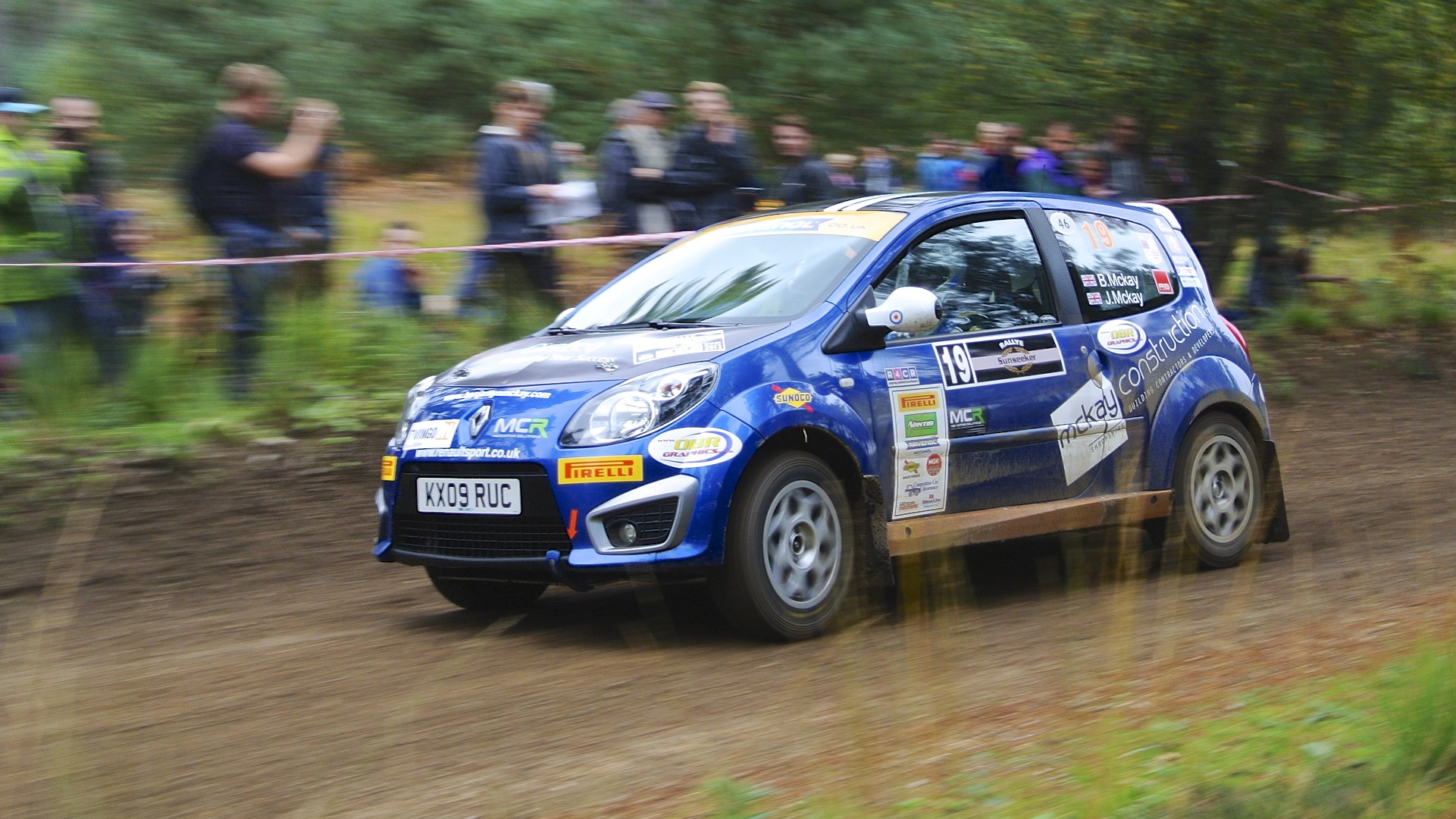 A super day out at the rally - and the rain held off too! Various classes of cars were racing from historic classics right up to current top spec factory cars. For sheer fun and exuberance nothing can beat the sight of a well driven rear wheel drive Escort and who does not enjoy the classic Mini, or a Saab? All photos taken with the Nikon V1 camera in S mode, a slowish shutter speed was used to enable panning with a blurred background.